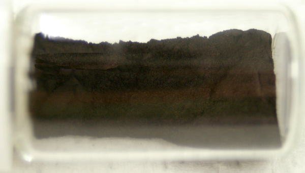 MgB2 powder